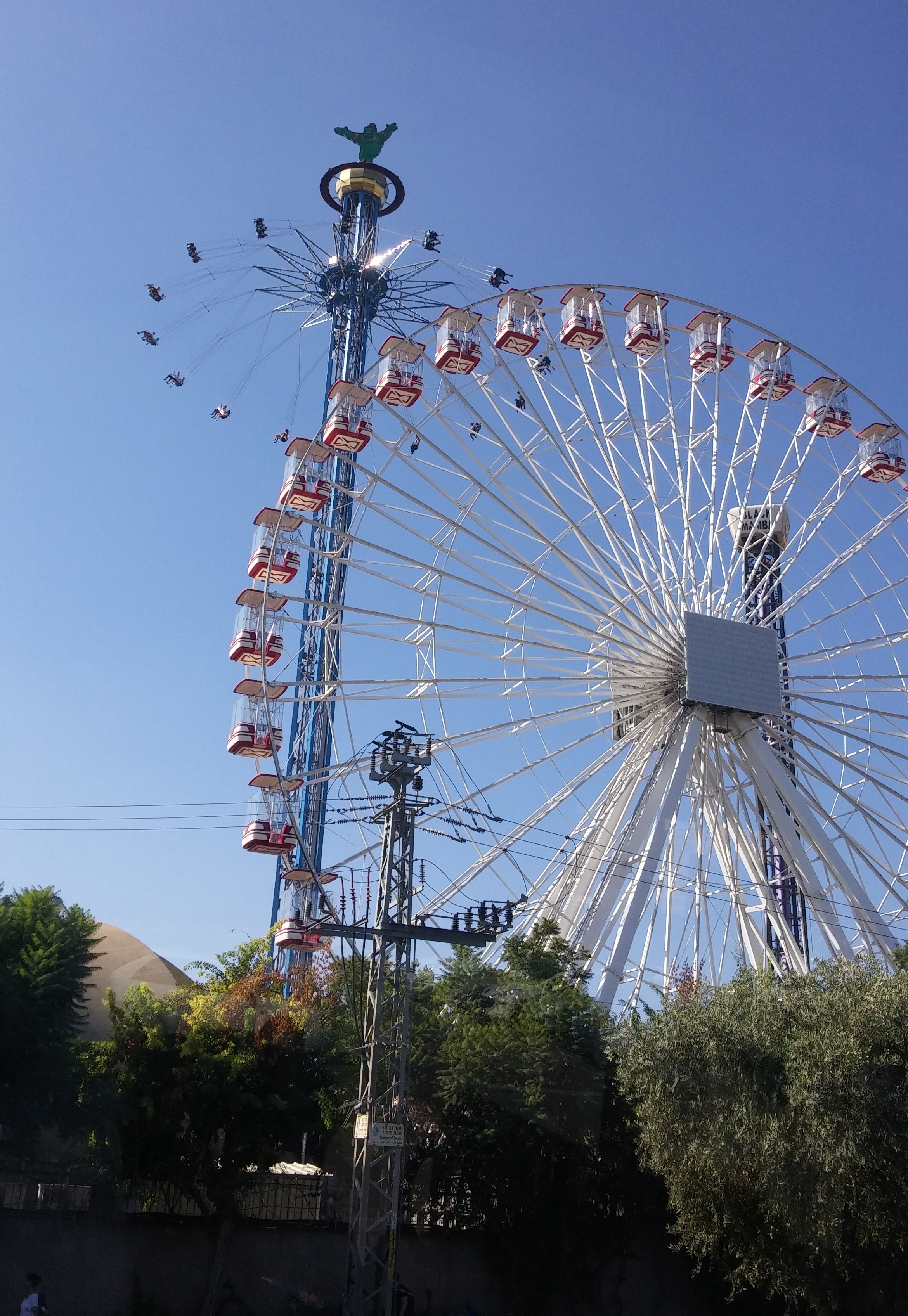 Luna Park Tel Aviv: Ferris wheel and Star Flyer